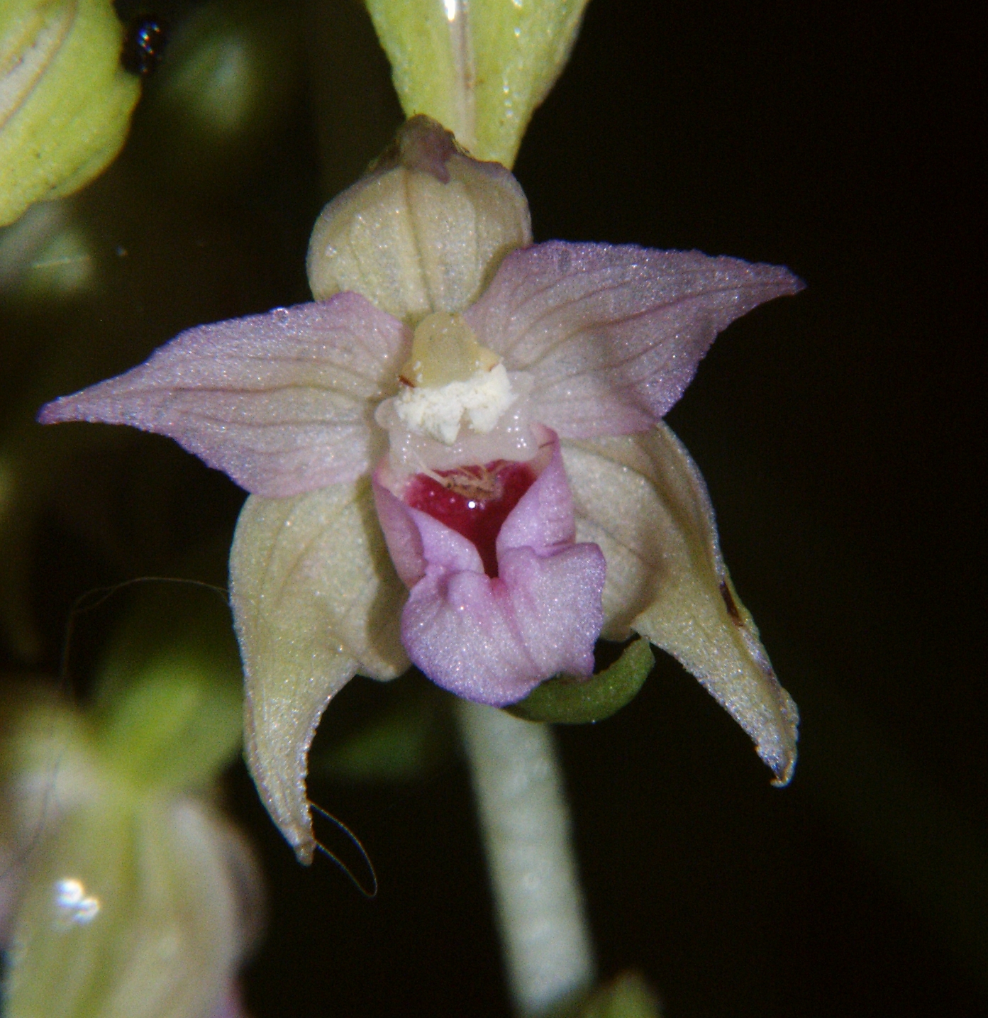 Epipactis neglecta, Hohenlohe, Germany